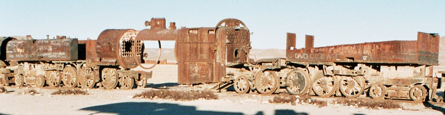 Remains of a Garratt locomotive (Beyer-Peacock, 1929) at the railway dump near Uyuni, Bolivia.